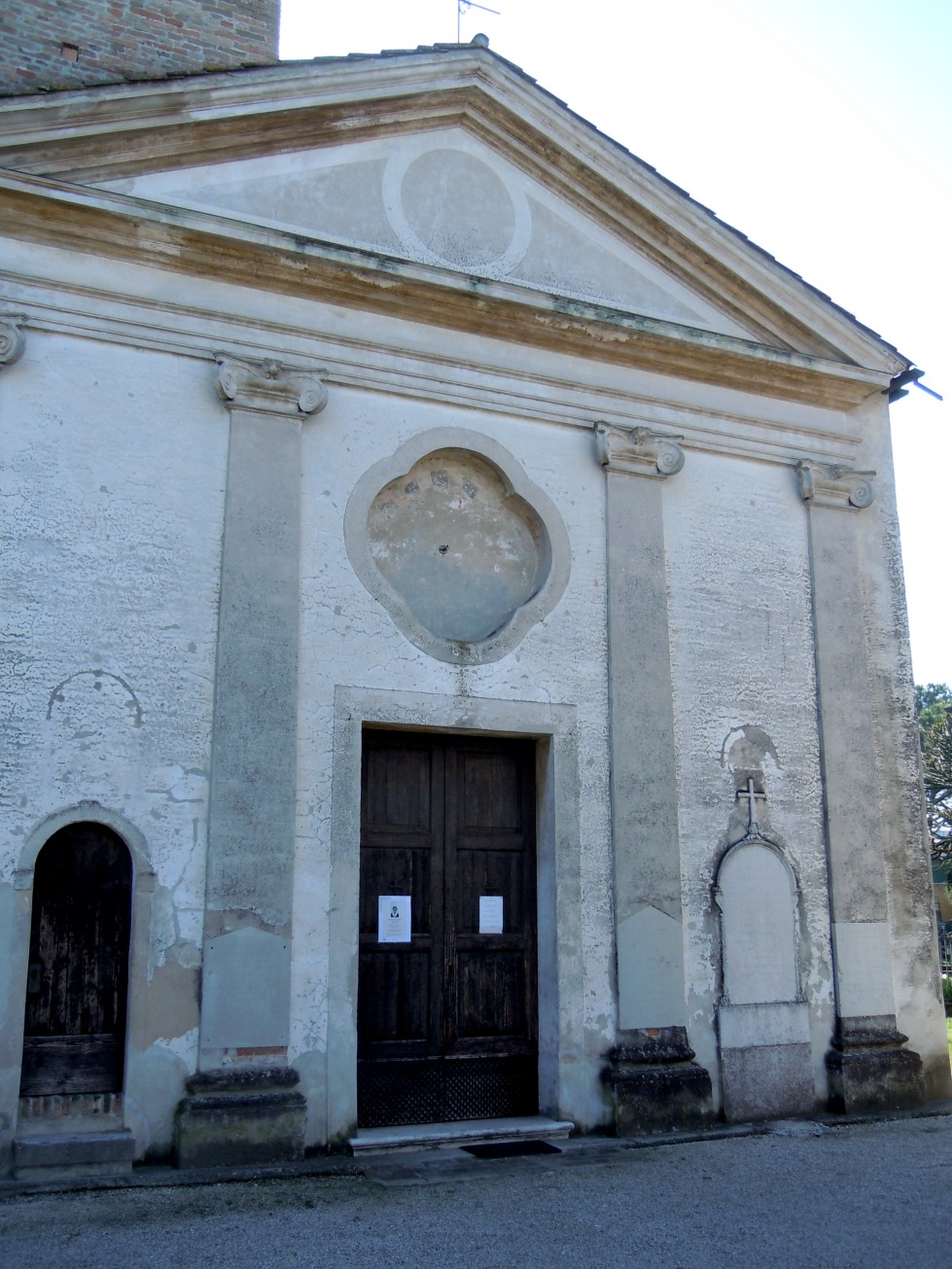 Fontane chiesa vecchia